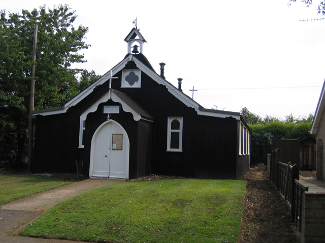 Christchurch Church of England mission church, Pinfold Lane, Pointon, Lincolnshire, seen from the west